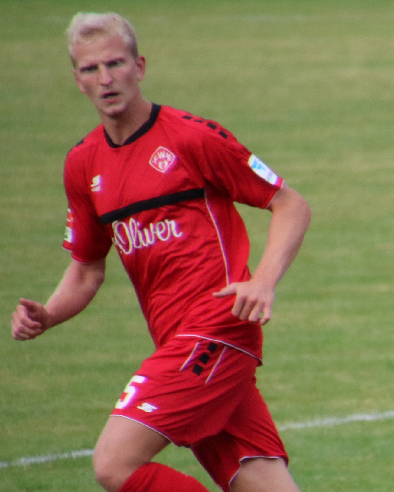 friendly match preseason